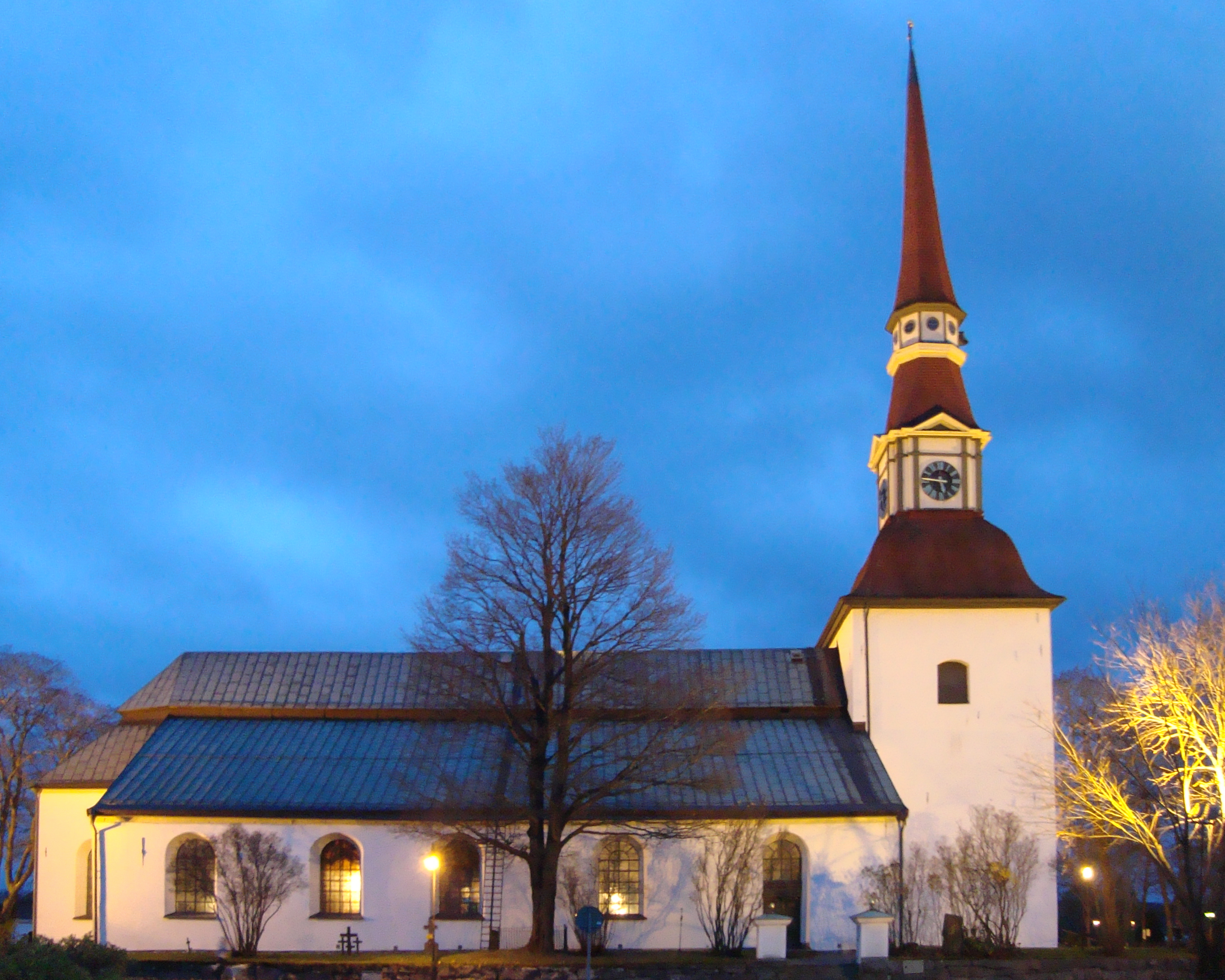 Church of Norrbärke